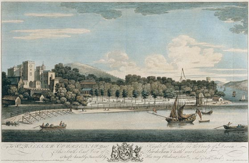 Powderham Castle, Devon, 1745 engraving by Samuel & Nathaniel Buck, inscribed below: "To Sr. William Courtenay, Bart., Knight of the Shire for the County of Devon, this south east view of Powderham Castle near Exeter is most humbly inscrib'd by his very obedient Serv:ts Sam:l & Nath:l Buck". Underneath in small print: "Sam.l & Nath.l Buck del. et sculp." Published according to Act of Parliam.t April 15.th 1745. Garden Court N.o 1 Middle Temple, London". The arms in the centre are of Sir William Courtenay, 3rd Baronet (1710-1762) de jure 7th Earl of Devon, created in 1762 Viscount Courtenay, impaling the arms of Finch, Earls of Aylesford, the family of his wife, which sinister arms are supported by one of the Finch griffins, the dexter supporter being the Courtenay boar. Above is the Courtenay dolphin. UK Government Art Collection, GAC 6483